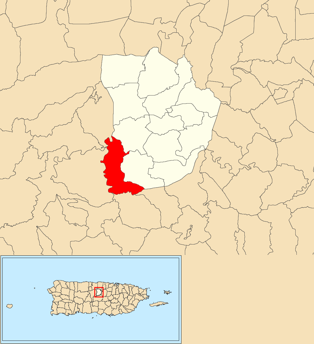 Vaga, Morovis, Puerto Rico locator map